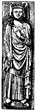 Philip IV of France